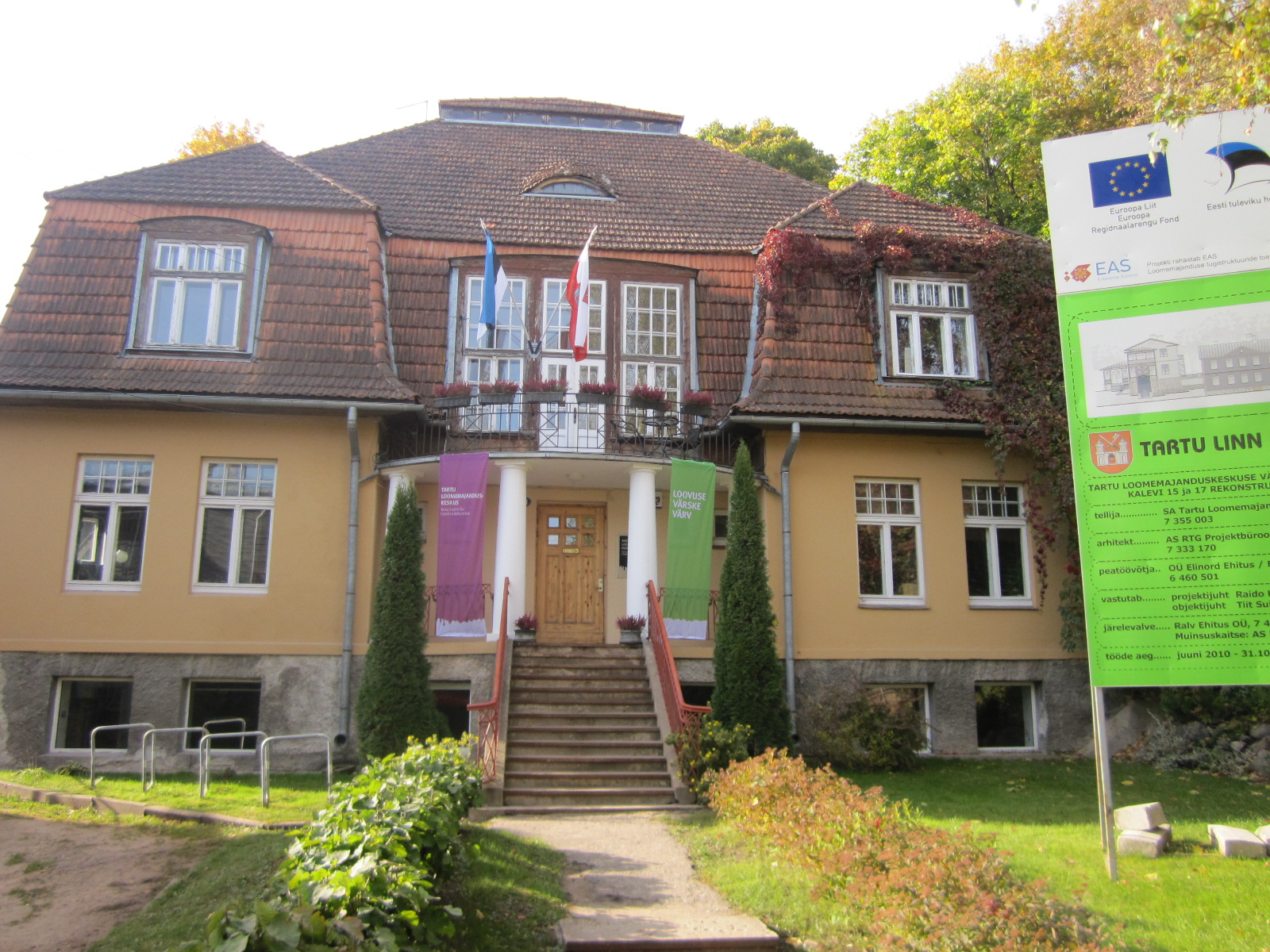 Main house of the Tartu Centre for Creative Industries, Kalevi 13